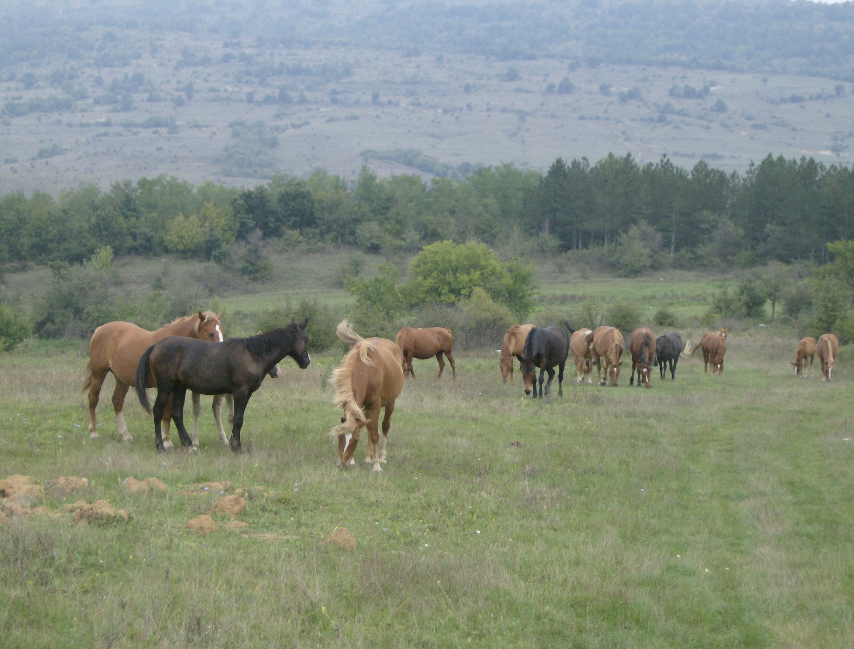 Herds